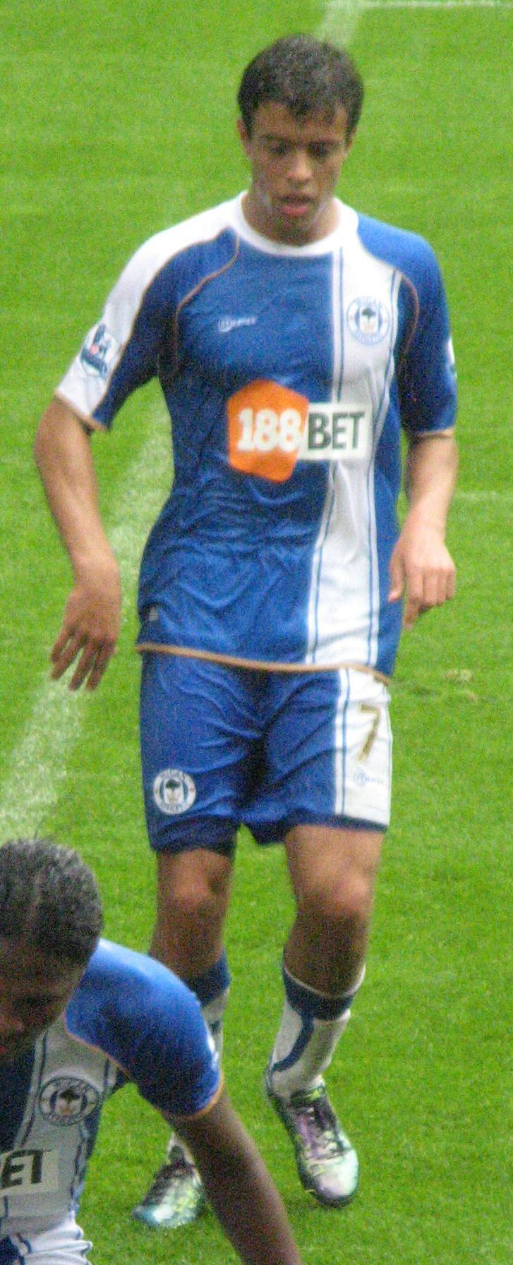 Franco di Santo playing for Wigan in September 2010.